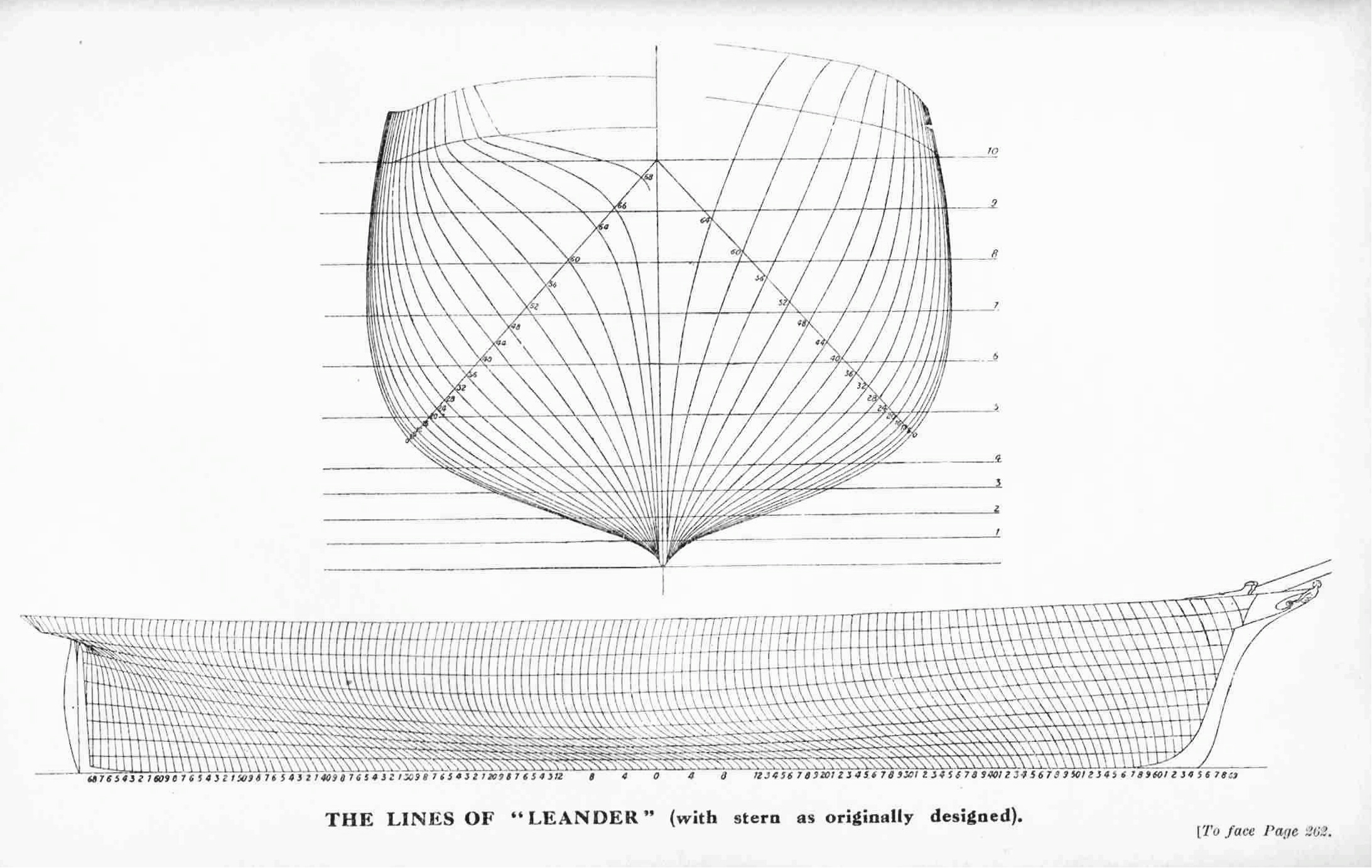 The lines of clipper ship Leander with stern as originally designed